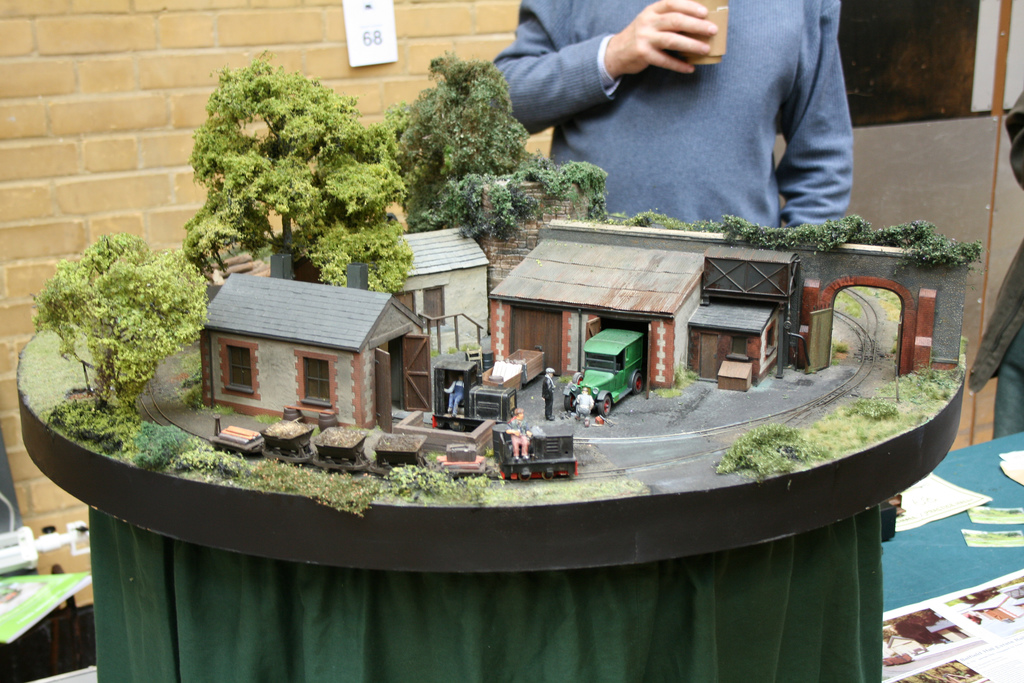 Layout originally constructed by Stephen Brown, now owned by Tony Hill. Using 9mm gauge track in 7mm scale to represent a 15" gauge estate railway, this layout caught my eye in Railway Modeller about 15 years ago and it's great to see it's still around. The new owner has remodelled the scenery but it definitely keeps the spirit of the original. The whole layout can rotate to keep a moving train continously in view as the scenery passes by.